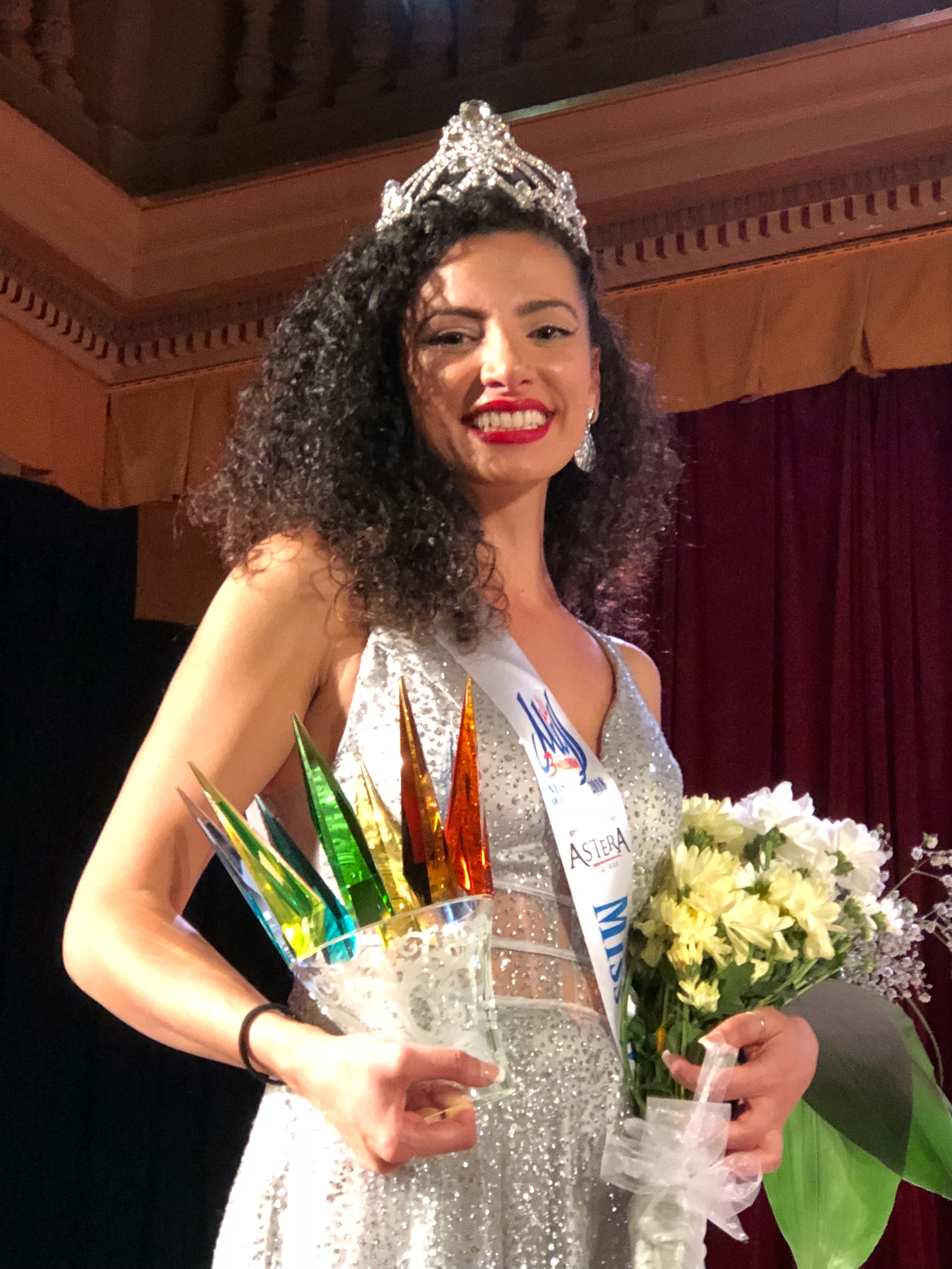 Assia Uhanany from Israel was crowned as Miss Deaf World 2018 in the Saturday night on 29 September 2018 in the National House of Vinohrady, Prague, CZ.